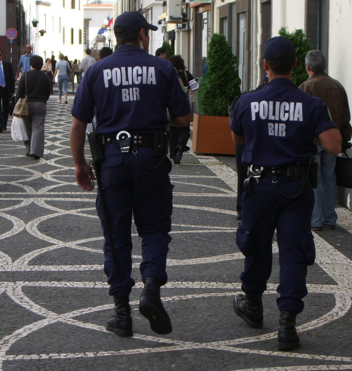 Two men of BIR - Rapid Intervention Brigade of Polícia de Segurança Pública in Madeira